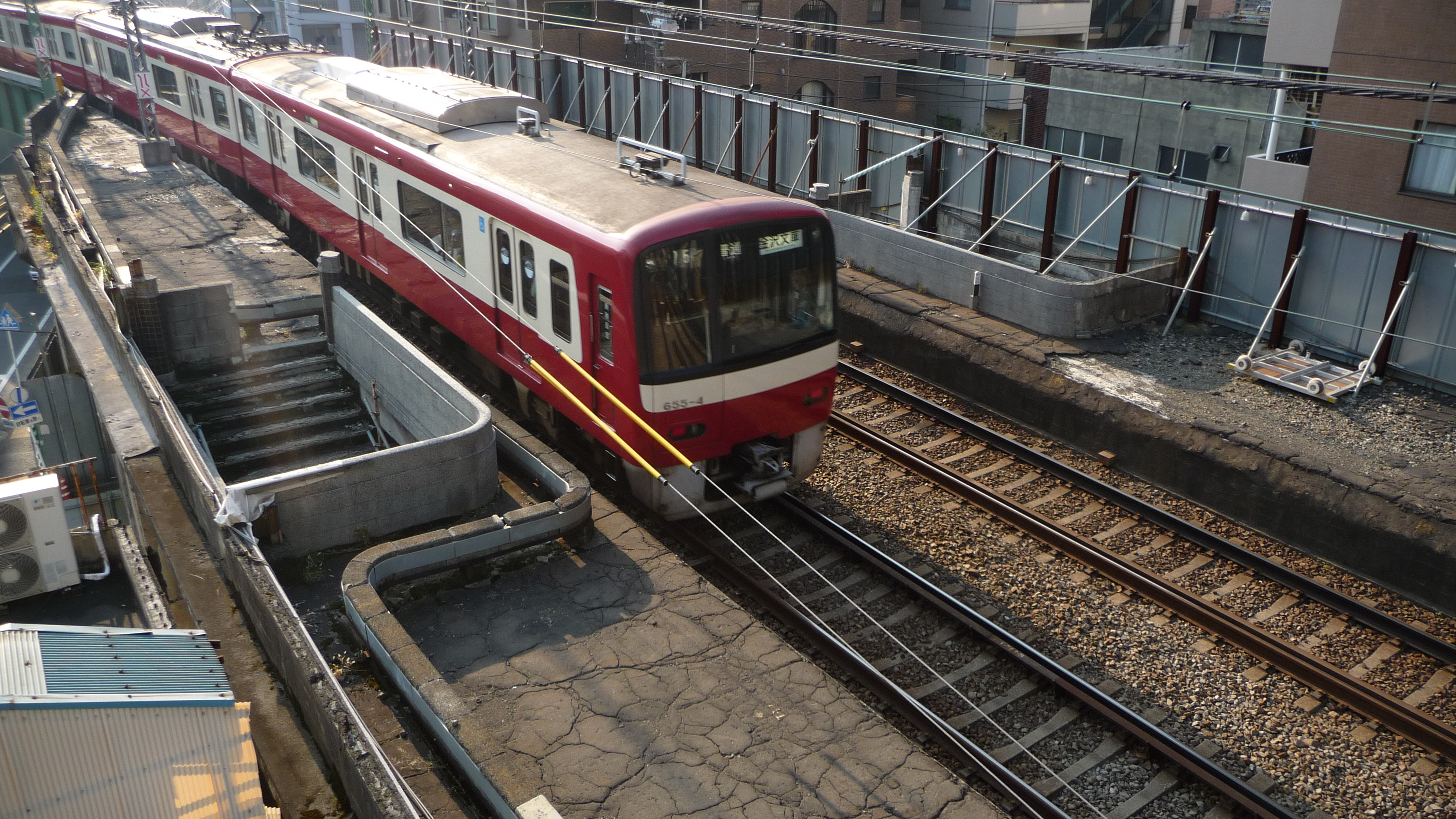 The remains of the former Hiranuma Station (closed 1944) on the Keikyu Main Line in Yokohama